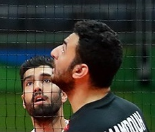 Volleyball, match between Iran and Egypt at the Olympic Games in 2016